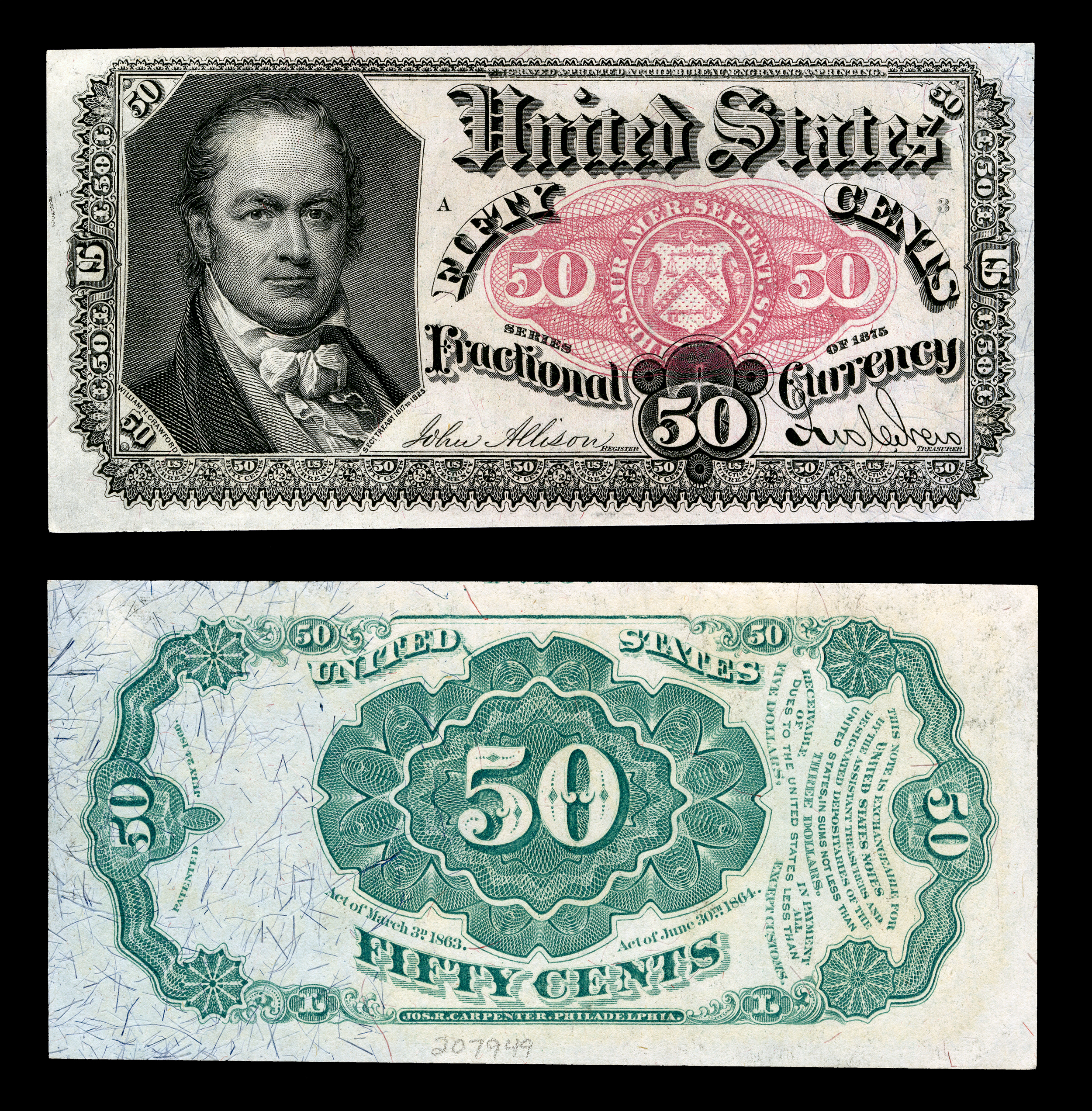 Fractional Currency was introduced by the United States Federal Government following the Civil War. These notes were in use between 21 August 1862 and 15 February 1876, and could be redeemed by the U.S. Postal Service for the face value in postage stamps. Fractional notes were issued in 3, 5, 10, 15, 25, and 50 cent denominations.